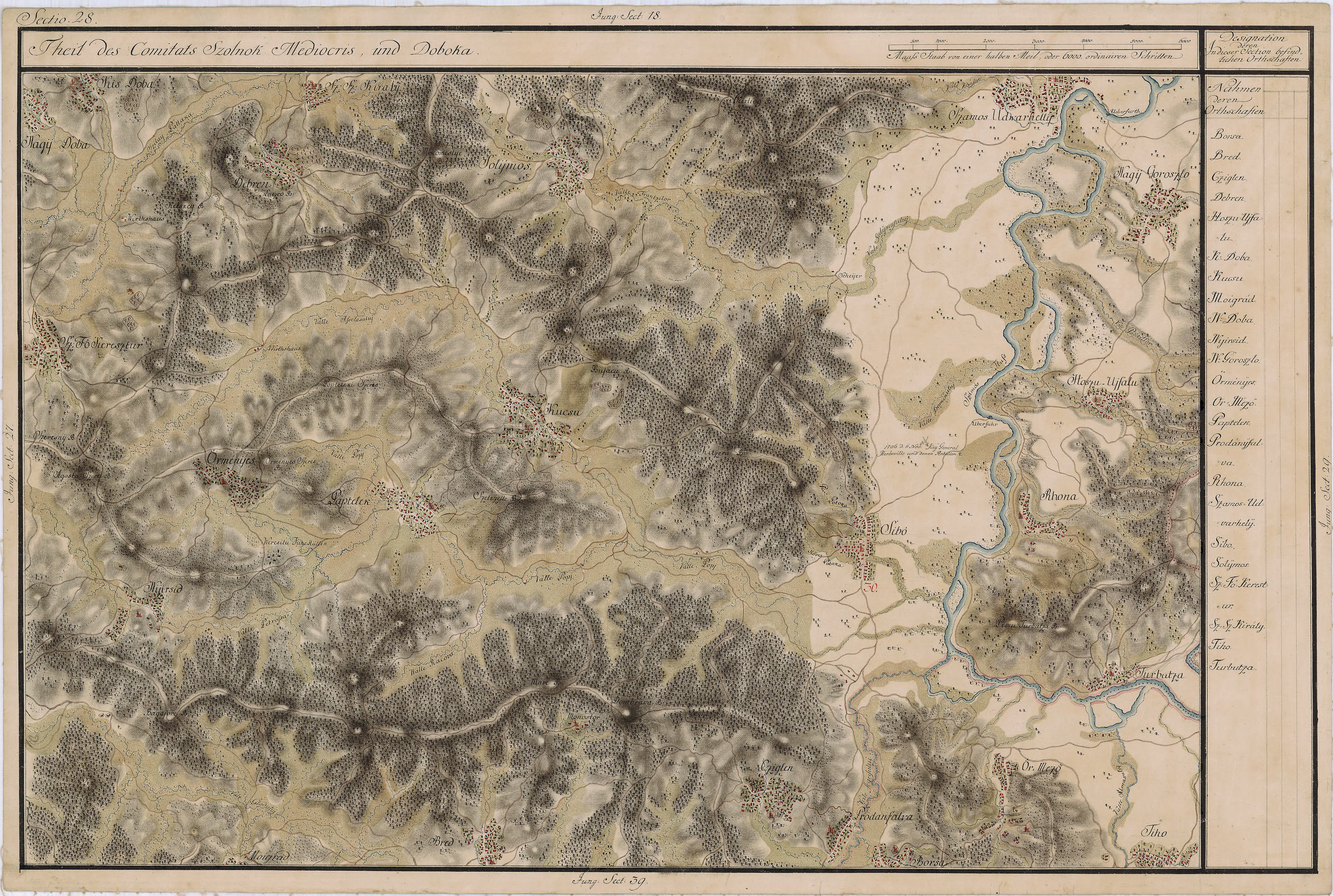 Grand Duchy of Transylvania, 1769-1773. Josephinische Landaufnahme pg.028